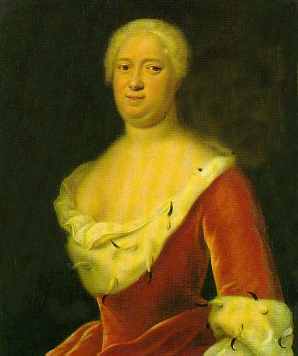 Portrait of Duchess Gustave Caroline of Mecklenburg-Strelitz (1694-1748)